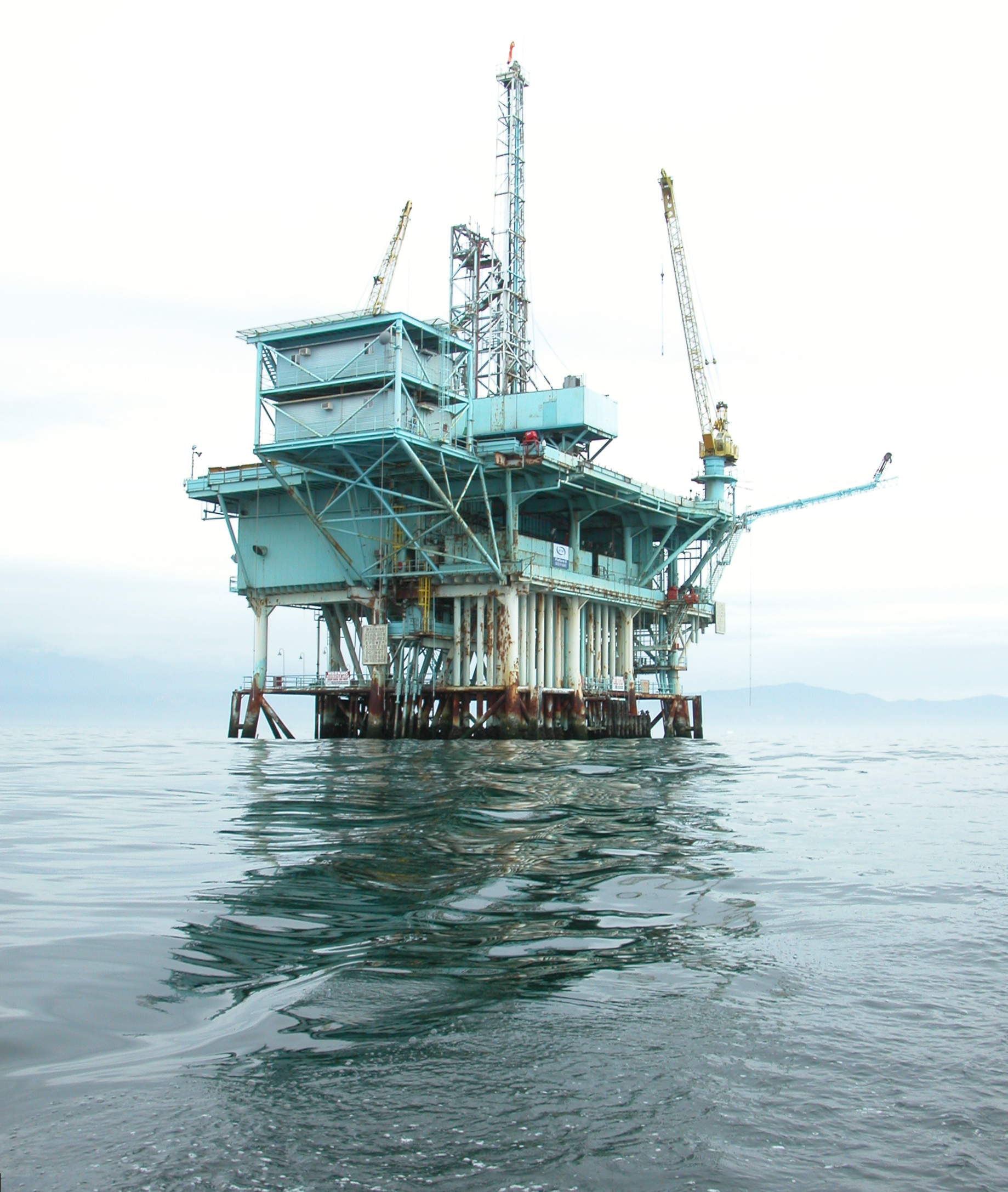 Platform B, Dos Cuadras offshore oil field, Santa Barbara.